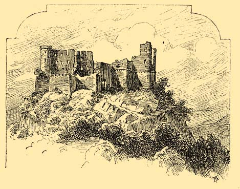 Khust castle, by Tivadar Dörre